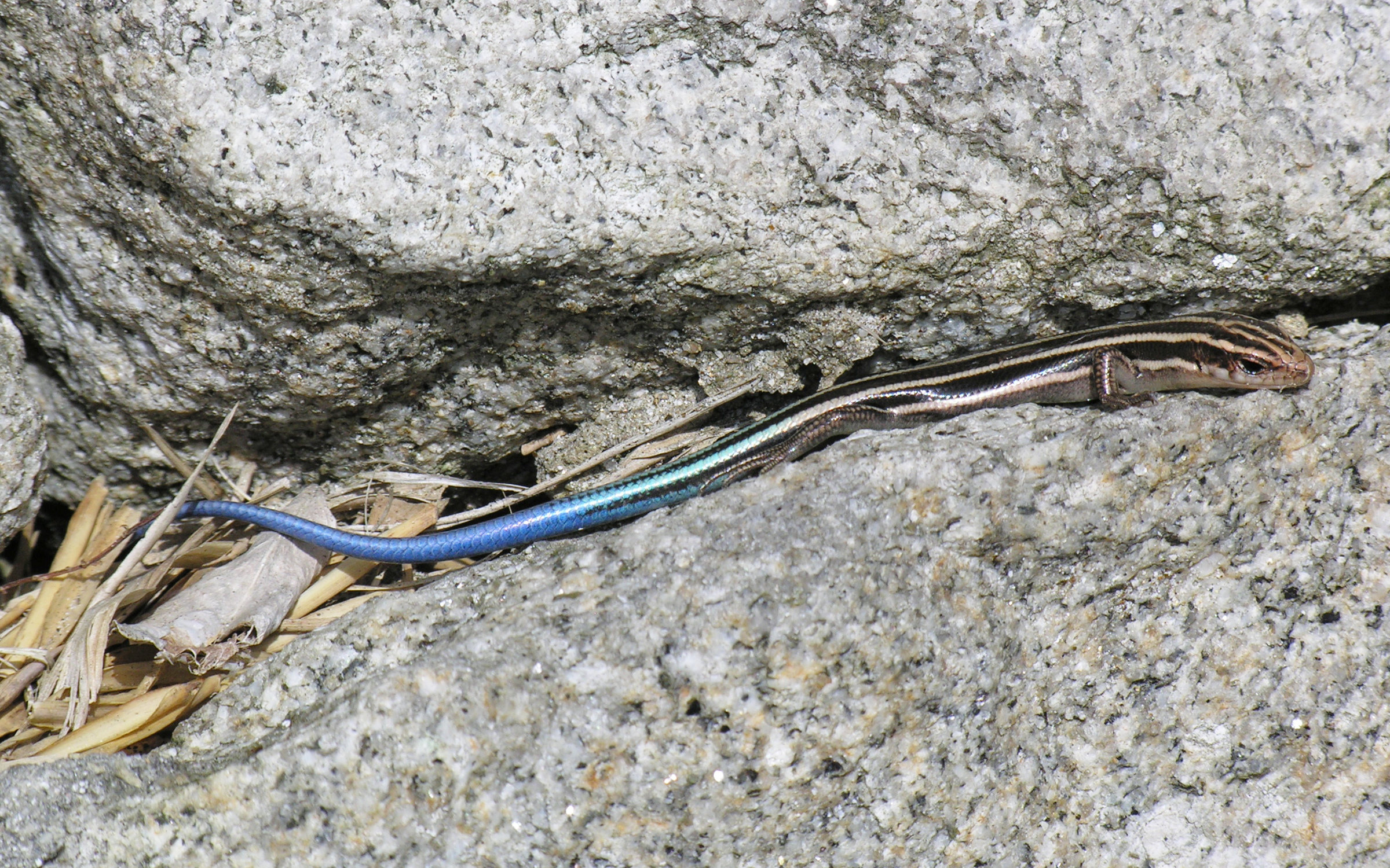 (Eastern)Japanese five lined skink, juvenile blue tail